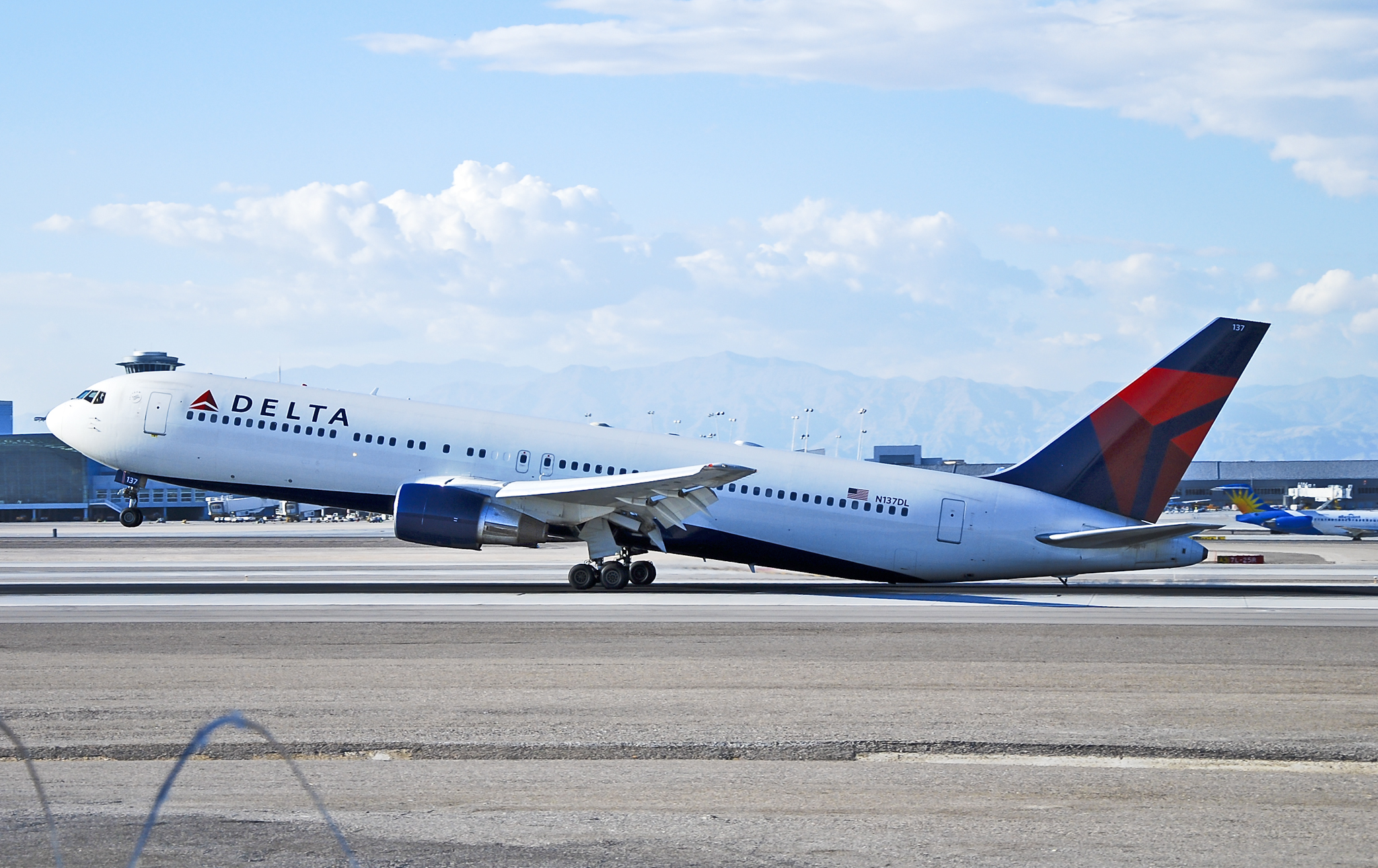 PHOTO 4 - A tail strike on the runway. Smoke comming from the Airplane Tailstrike Protection System... Las Vegas - McCarran International (LAS / KLAS) USA - Nevada, August 23, 2012 Photo: Tomás Del Coro